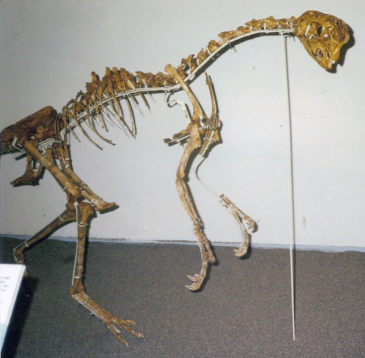 Oviraptorid specimen IGM 100/42, Citipati sp., on exhibit at Experimentarium, Denmark.